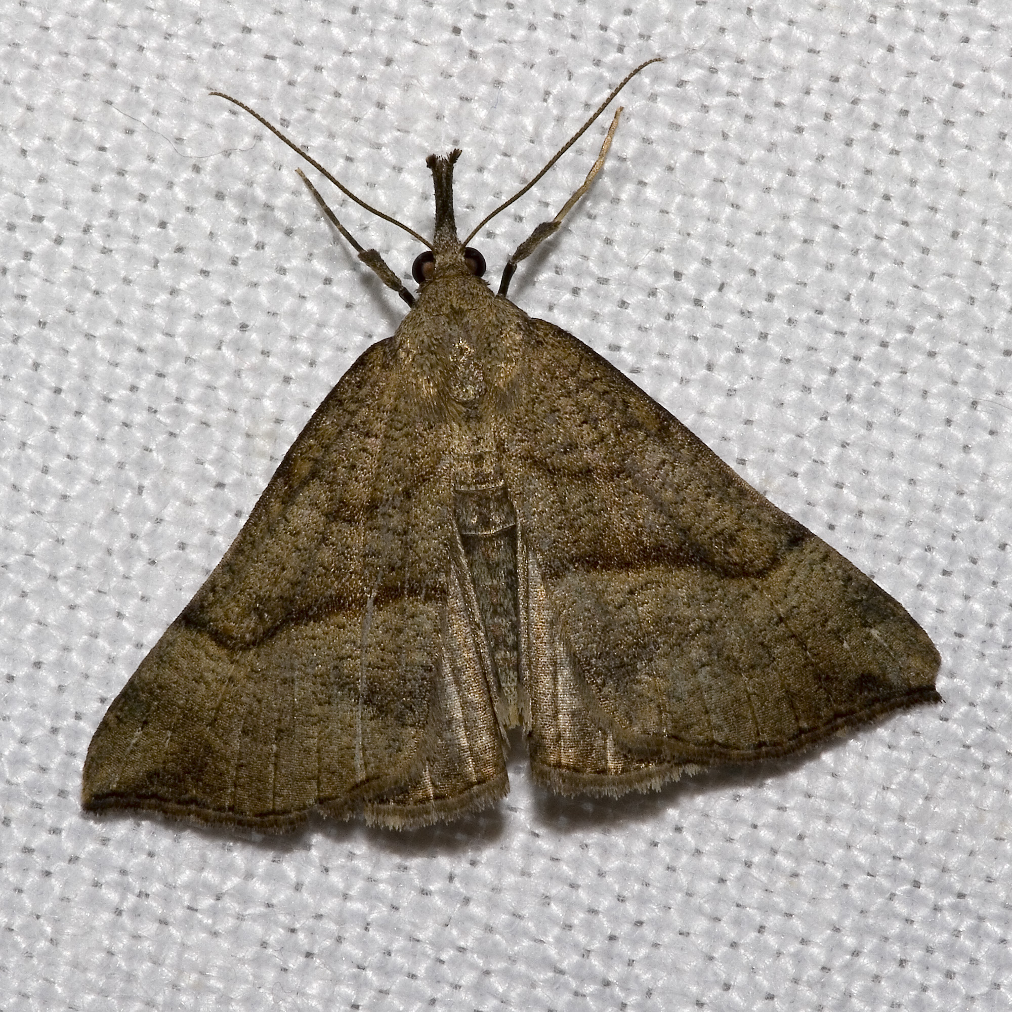 The Snout